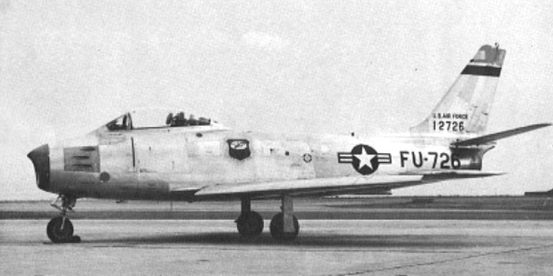 4925th Test Group North American F-86E-10-NA Sabre 51-2726, Kirtland AFB, New Mexico